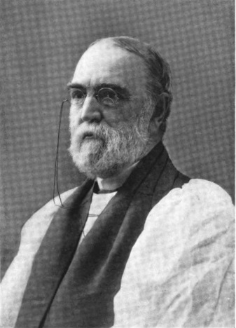 The Rt. Rev. Thomas Augustus Jaggar, first Episcopal Bishop of Southern Ohio. Consecrated April 28, 1875.